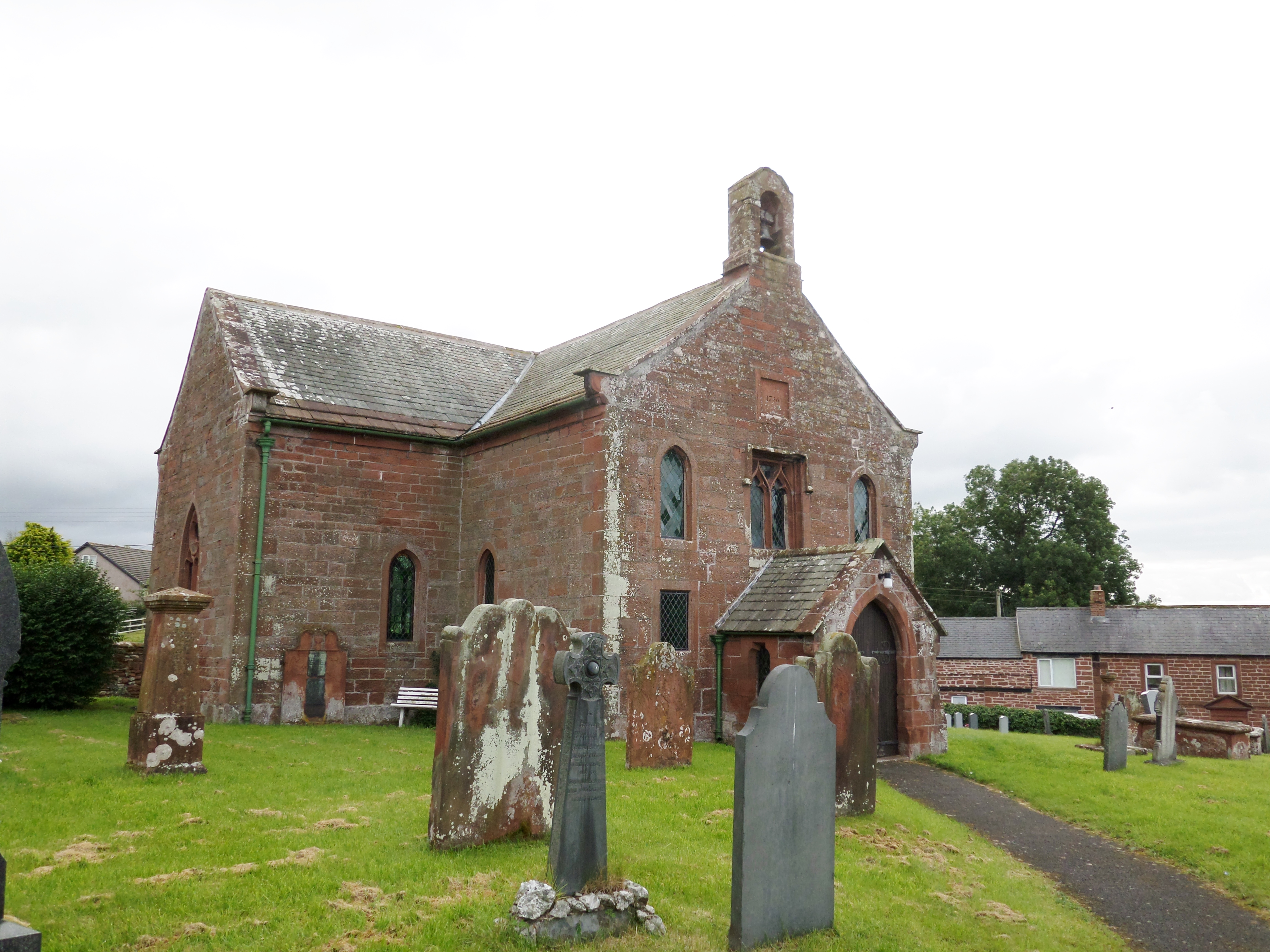 All Saints Church, Culgaith, Cumbria, UK - from the west